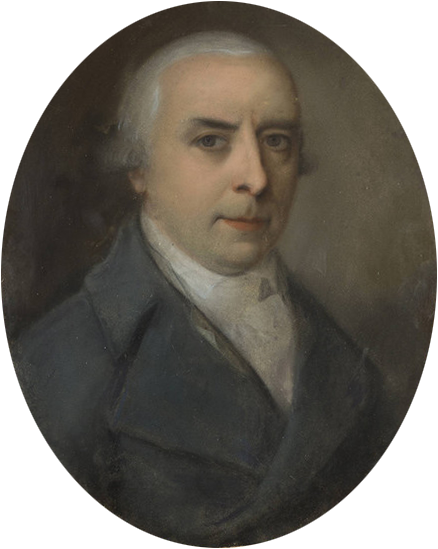 Portrait of August Joseph Pechwell, 1800-1811